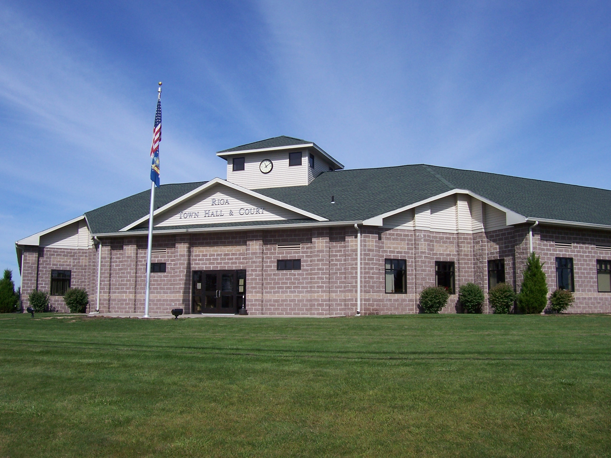 Riga, New York town hall